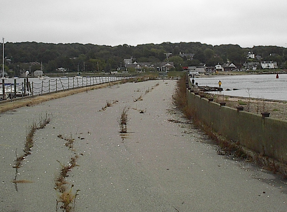 The western stub of the 1907 Stone Bridge, taken from the Portsmouth, Rhode Island side. It is now used as a fishing pier.